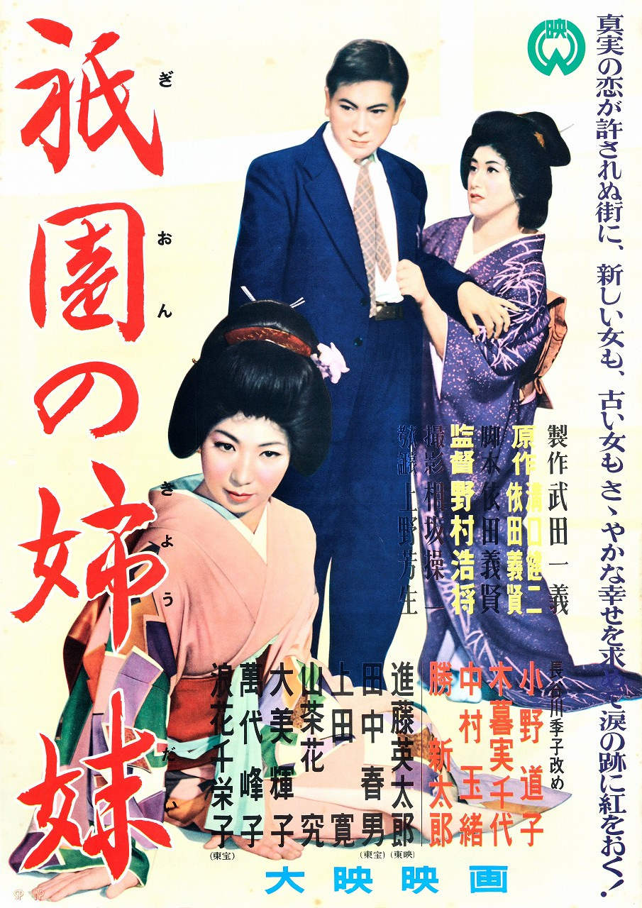 1956 Japanese movie poster (B2 size) for 1956 Japanese movie Sisters of the Gion (祇園の姉妹 Gion no shimai).